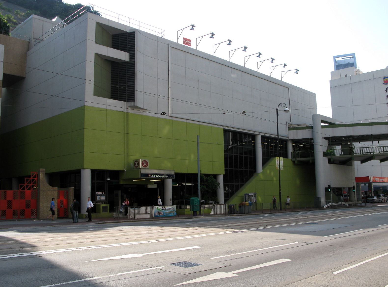 HK Quarry Bay Station Outside